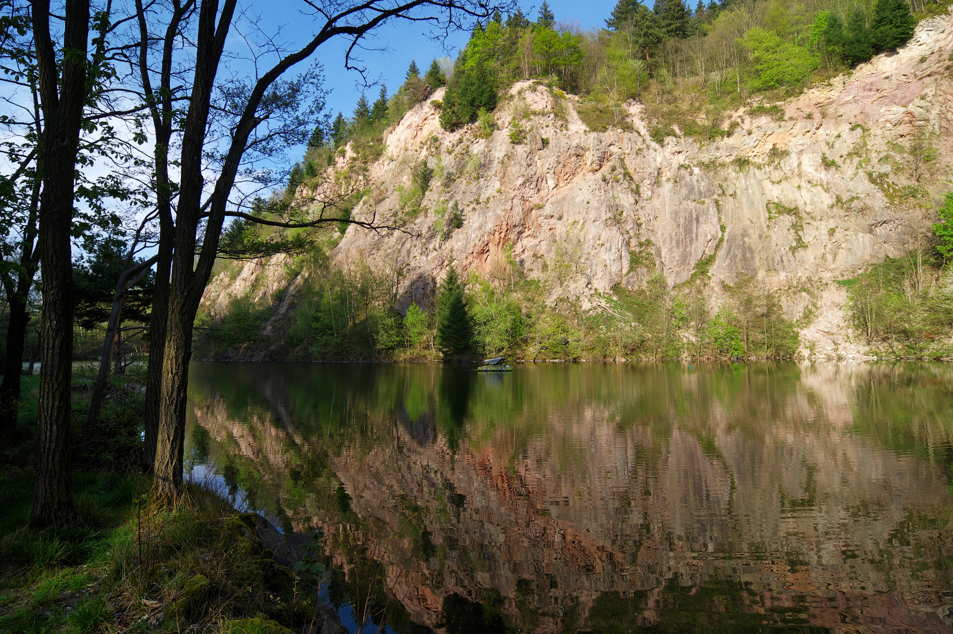 Waldenecksee or Petersee, a quarry lake near Baden-Baden